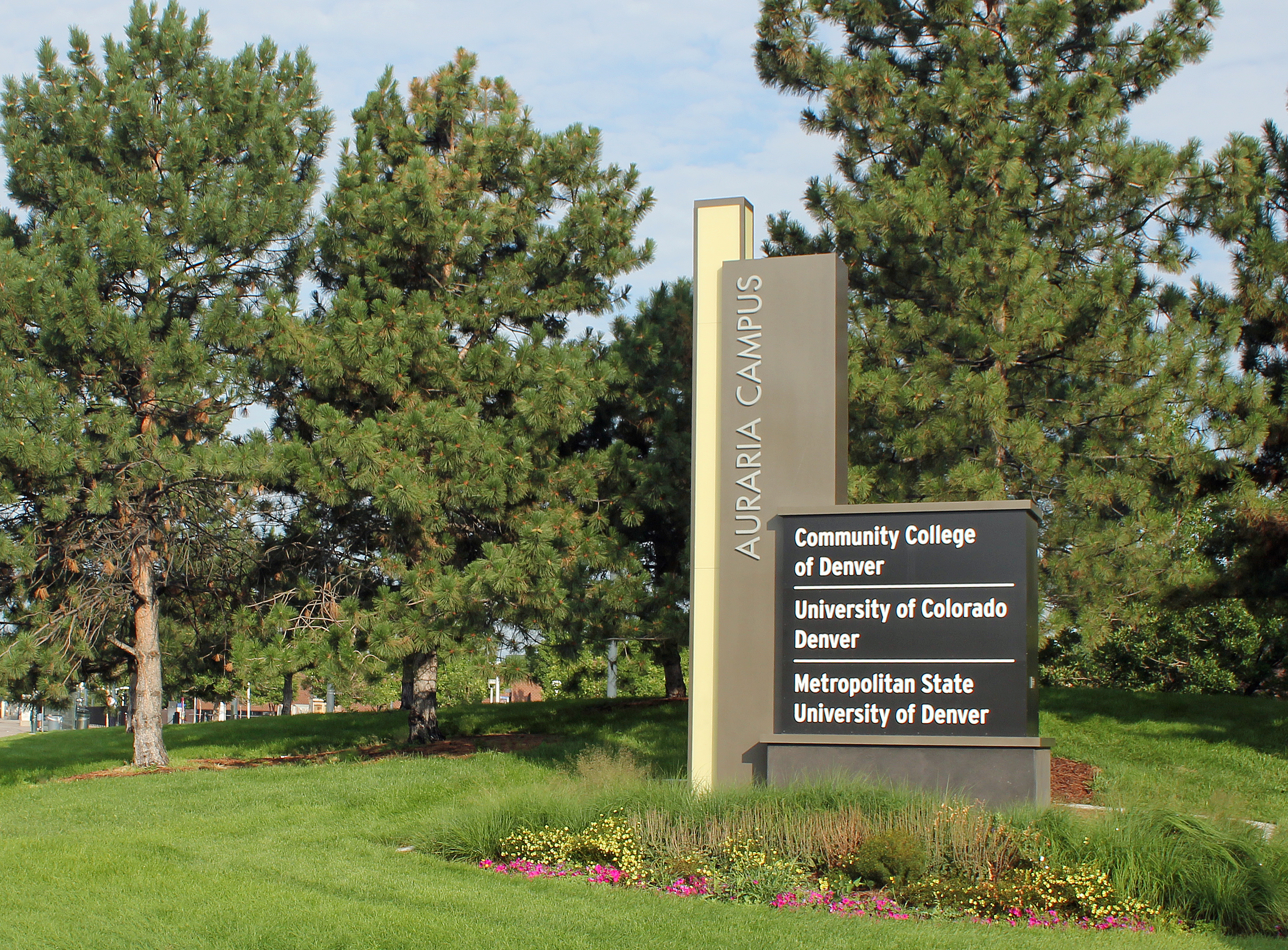 One of the signs marking the Auraria Campus. This one is located at the intersection of Kalamath Street and West Colfax Avenue. There are three institutions of higher education located on the campus, and each is named on the sign: University of Colorado Denver, Metropolitan State University of Denver, and Community College of Denver.